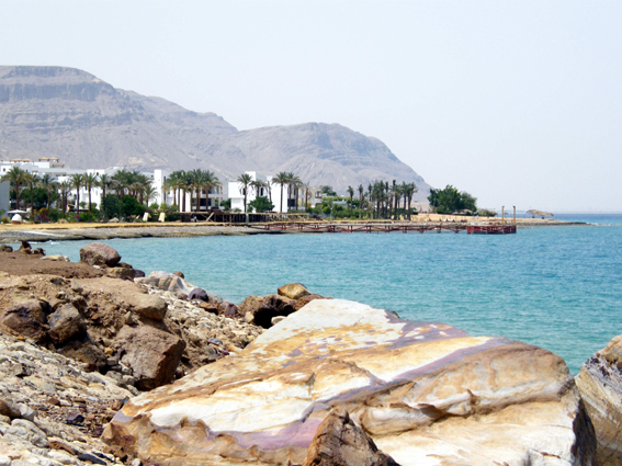 Ataqah, Suez Governorate, Egypt